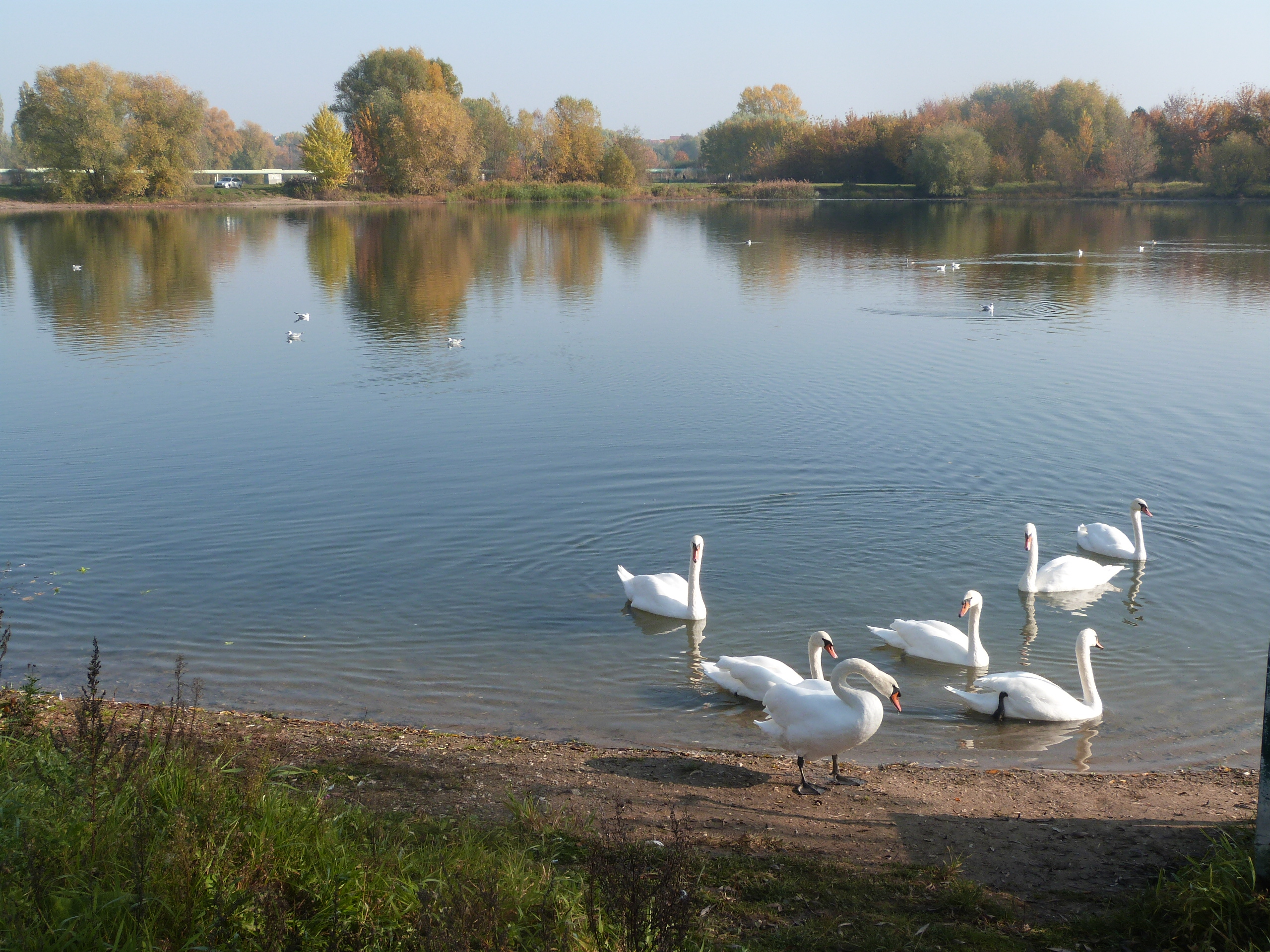 Lake "Kiesgrube Saaleaue", northern part, Halle (Saale)